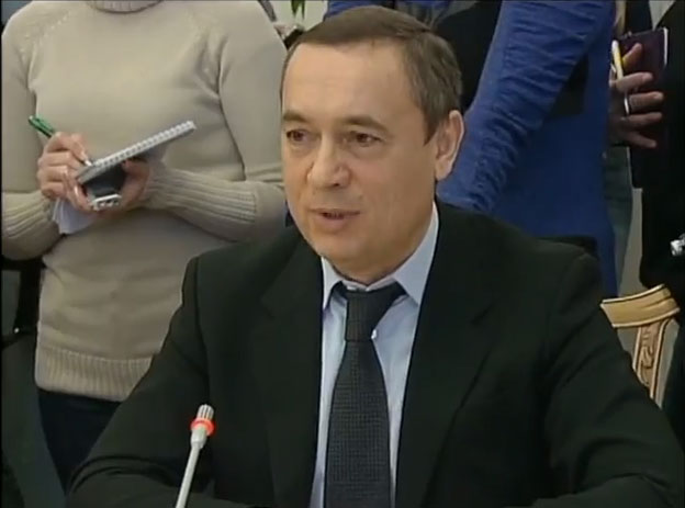 Mykola Martynenko, Ukrainian politician, member of the Ukrainian Verkhovna Rada